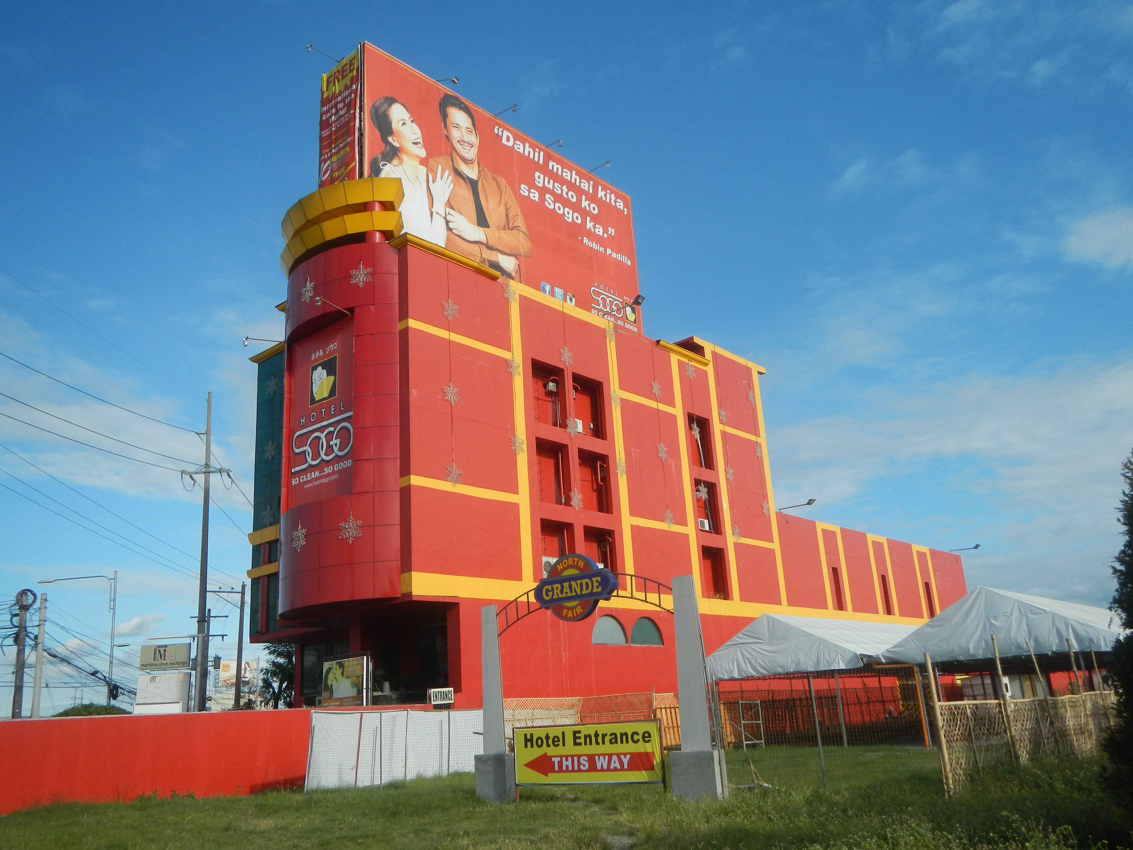 Hotel Sogo (Mexico, Pampanga) (Note: Judge Florentino Floro, the owner, to repeat, Donor Florentino Floro Judge Floro, of all these photos hereby donate gratuitously, freely and unconditionally all these photos to and for Wikimedia Commons, exclusively, for public use of the public domain, and again without any condition whatsoever).